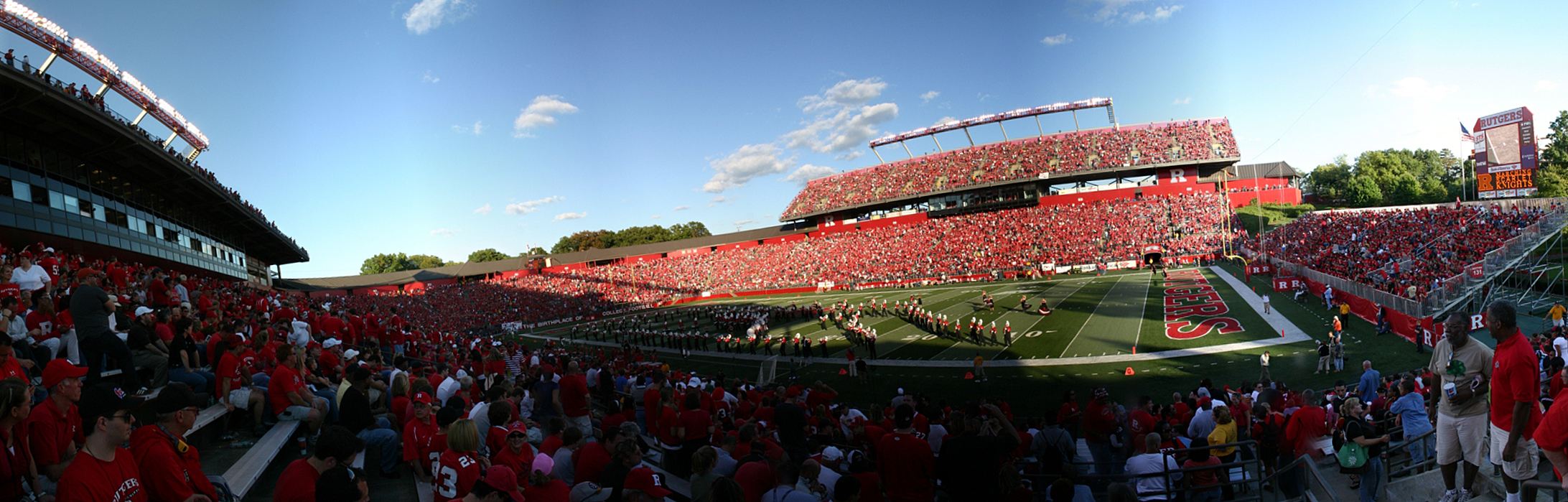 Rutgers Stadium